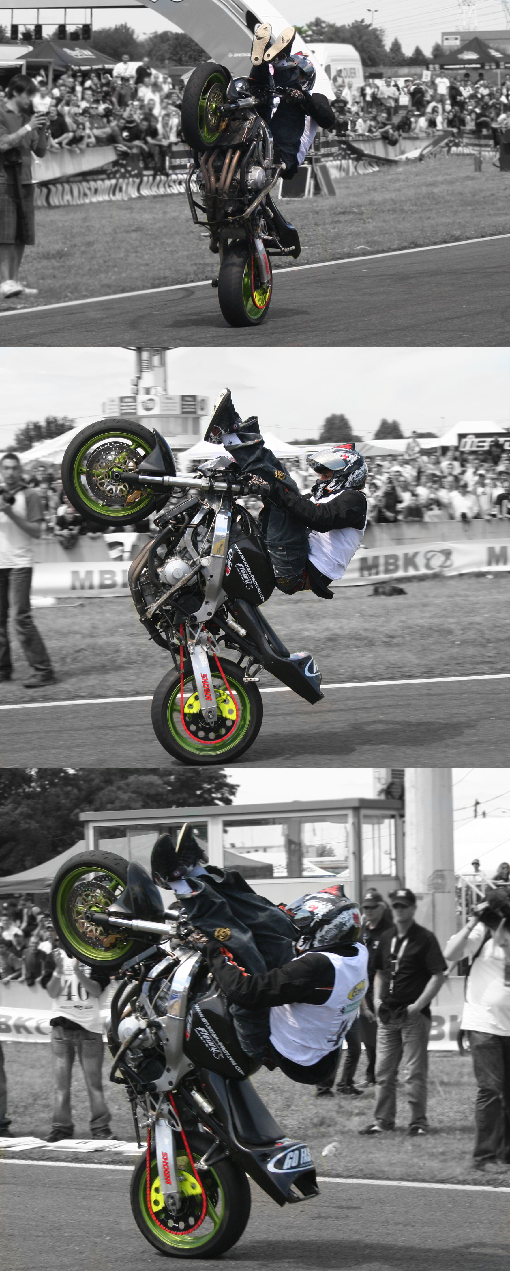 Wheeling fenwick, during the Stunt Bike Show (Carole Racetrack, France)